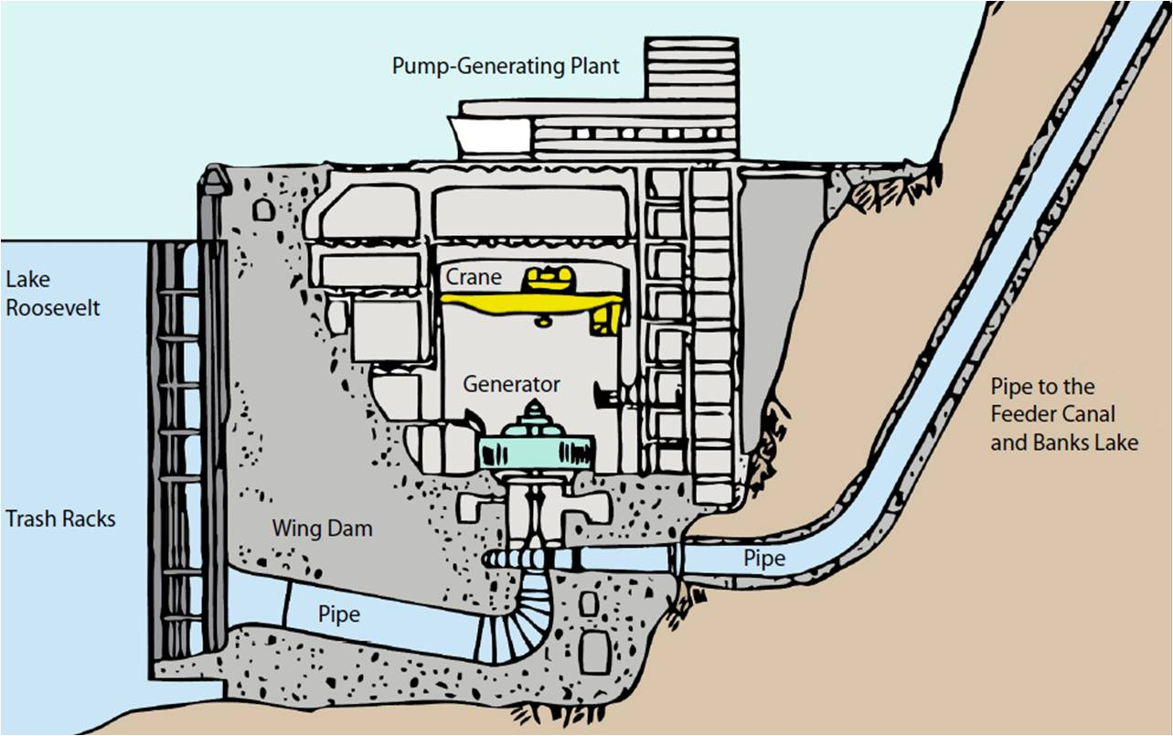 A diagram of the Grand Coulee Dam's John W. Keys III Pump-Generating Plant